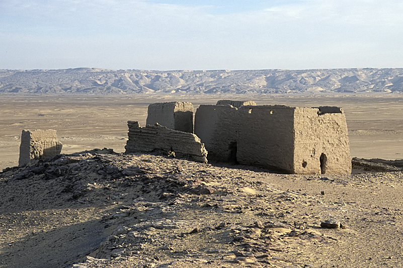 Mud-brick temple of Qasr Dush, el-Kharga depression, Libyan desert, Egypt